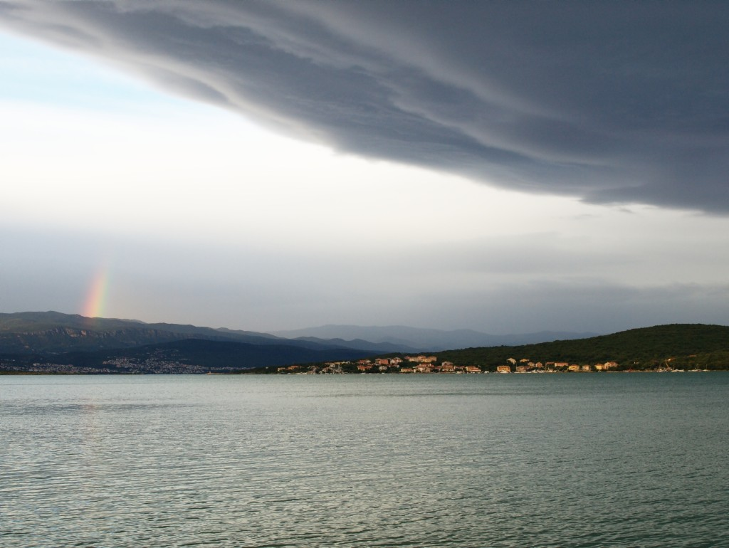 Klimno — view from the bay Soline.